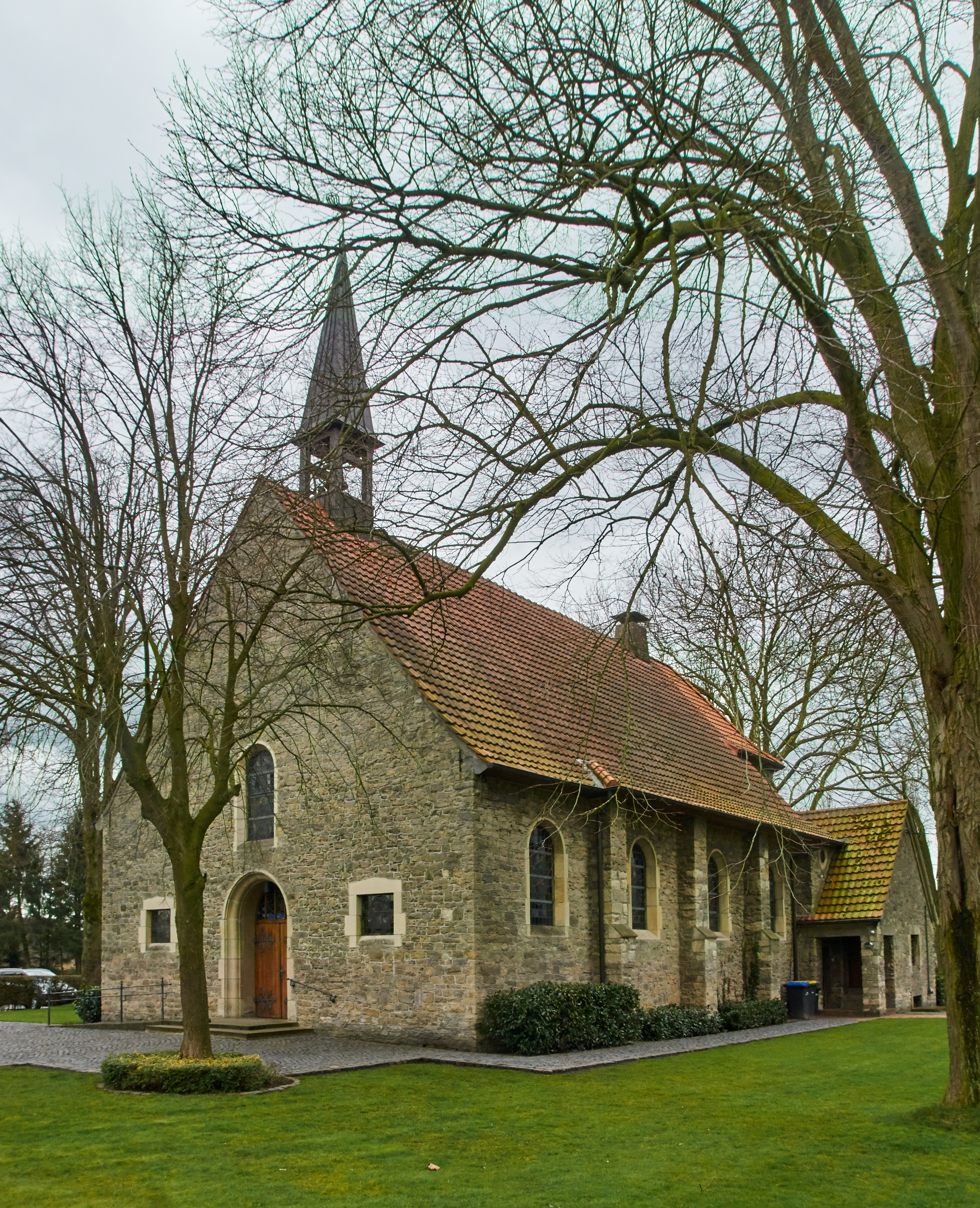 Church Anthony the Great in Gemen, Schöppingen, North Rhine-Westphalia, Germany. This is a photograph of an architectural monument.